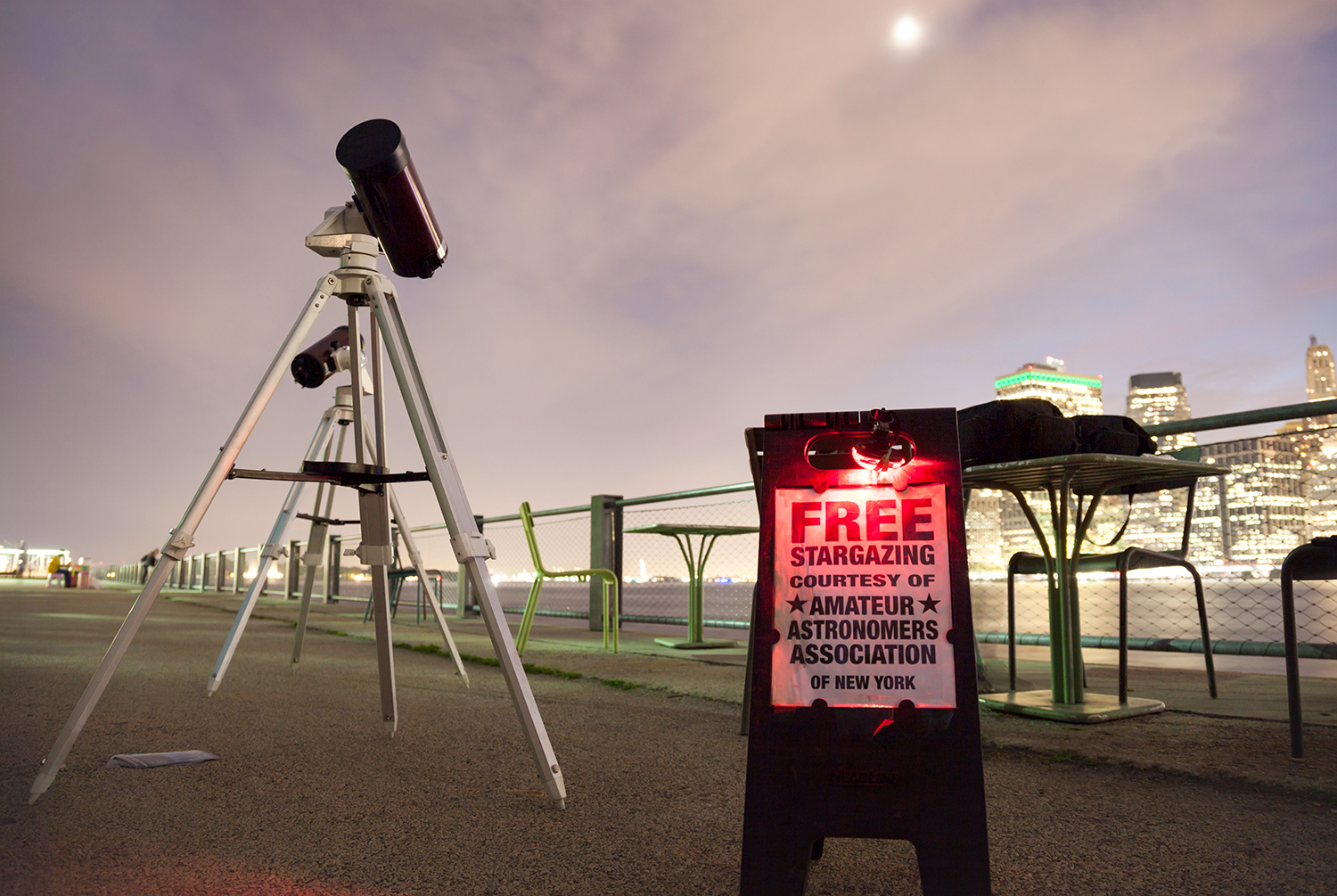 On Friday nights in June and July, the Amateur Astronomers Association of New York sets up telescopes for stargazing sessions in Brooklyn Bridge Park that are free and open to the public.[1] (Photo gallery of DUMBO, Brooklyn)